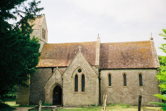 St John the Evangelist's parish church, Woodsford, Dorset, seen from the south